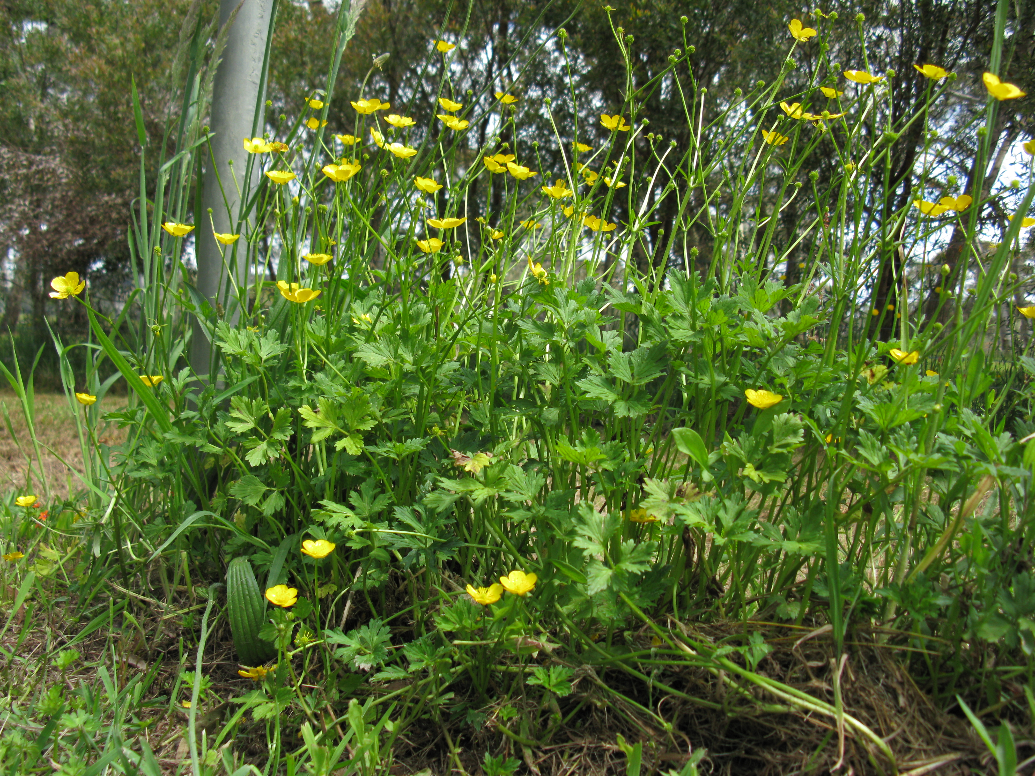 Introduced, warm season, perennial, hairy to nearly hairless, stoloniferous herb. Flowering stems are 5–60 cm tall, often branching and leafy. Leaf laminas are mostly oblate or triangular, 1.5–13 cm long, ternate; segments stalked, obovate with cuneate base, further lobed and toothed, often with pale markings toward the base; petiole 3–35 cm long. Flowers are solitary or in cymes. Petals usually 5, are 8–15 mm long, 9–13 mm wide and golden-yellow. Carpels are 25–60, but commonly few set seed. Achenes are 2.5–3 mm long, lateral faces smooth, with a prominent marginal ridge. Flowering is from spring to summer. A native of Eurasia, it is often found forming lush growth in moist disturbed sites on fertile soil.